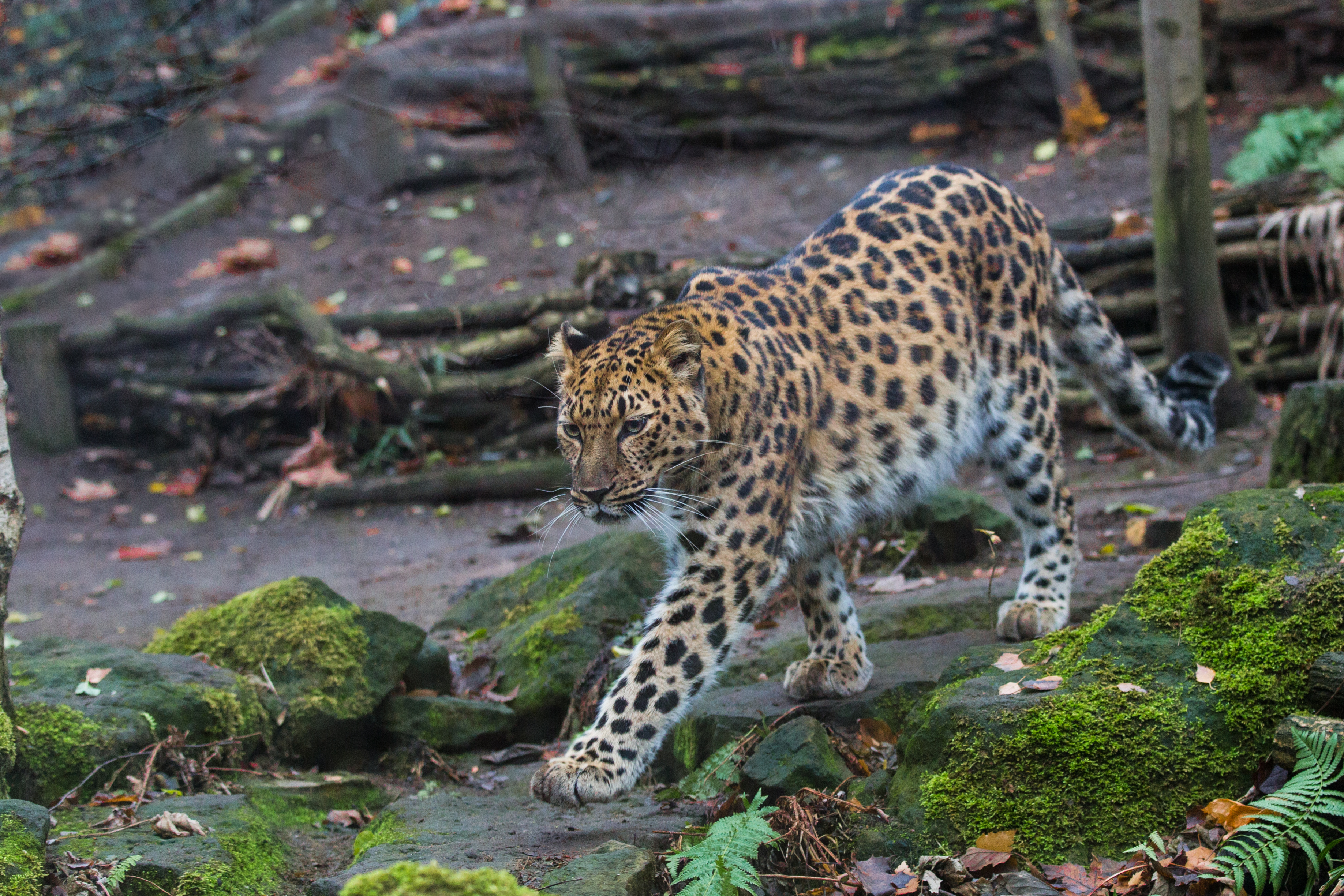 Amur leopard in Prague Zoo